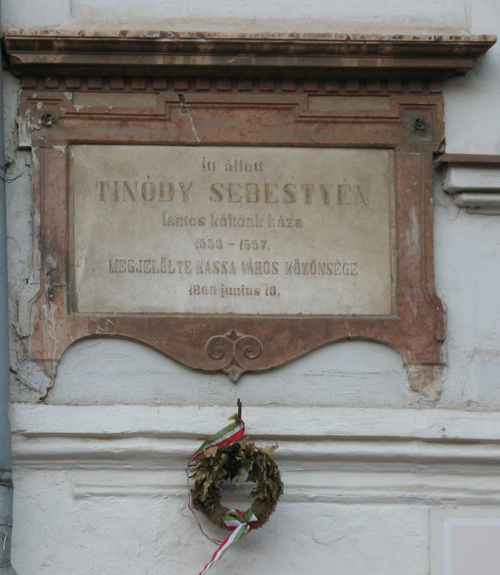 plaque of Tinódi Lantos Sebestyén